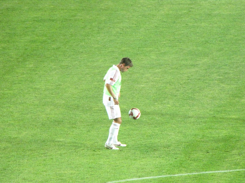 Galatasaray-Tobol European Cup 23.07.2009